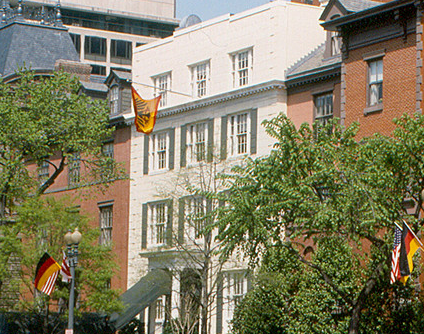 Exterior of the President's Guest House in Washington, D.C. during state visit by German President Richard von Weizsäcker